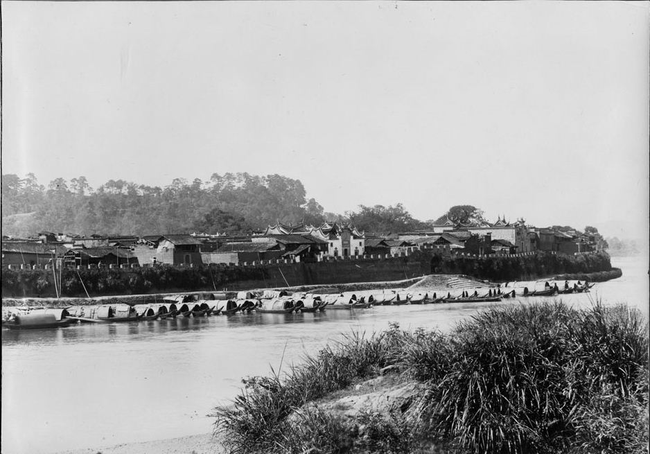 A fortified Chinese town on the banks of a river, Fujian, China, ca. 1910 A panoramic view of an old Chinese town surrounded by a stone wall along a river's edge. A row of small boats line the banks of the river.; Emily Susan Hartwell was an American Board of Commissioners for Foreign Missions missionary stationed in Foochow, Fukien from 1884.